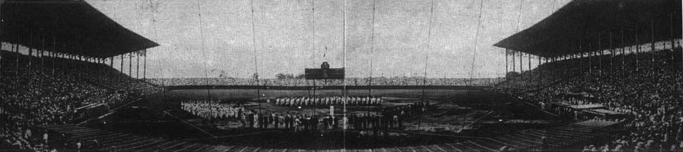 The 21st Annual National High School Baseball Championship opening ceremory (Kōshien Stadium)